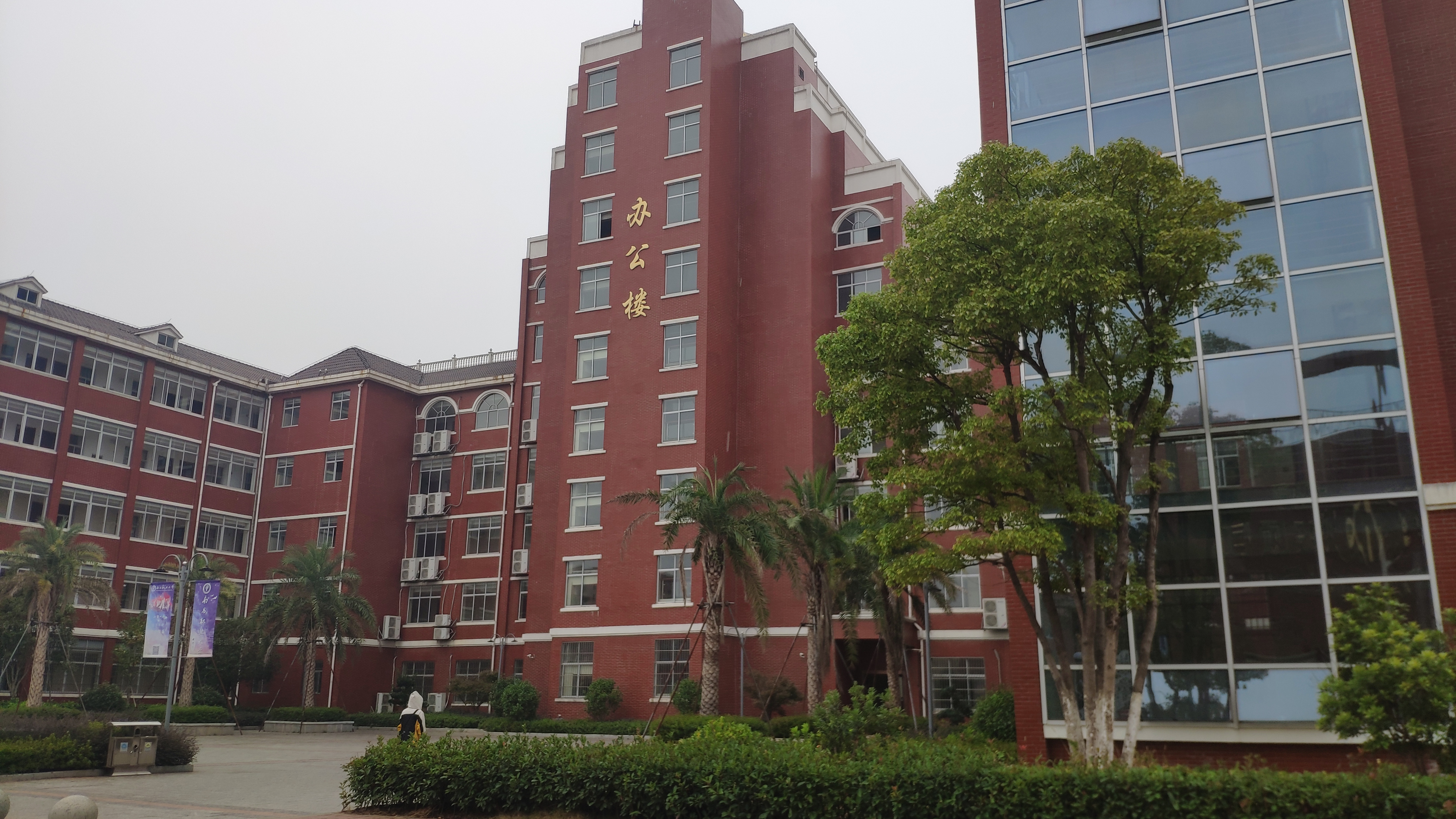 Nanchang Vocational College